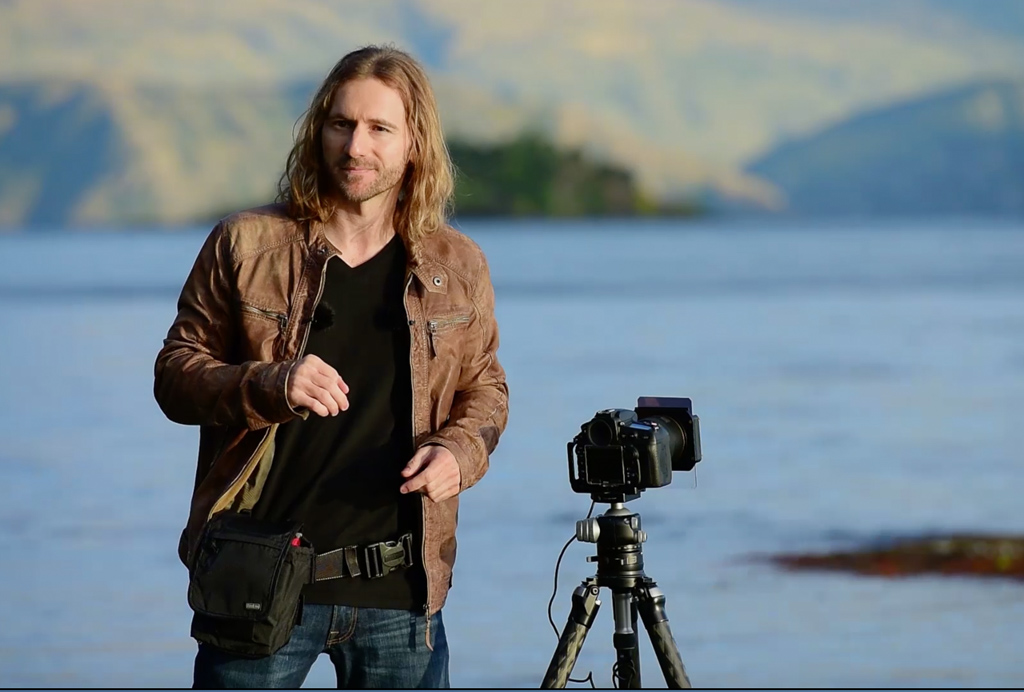 Image of Elia Locardi teaching in the field